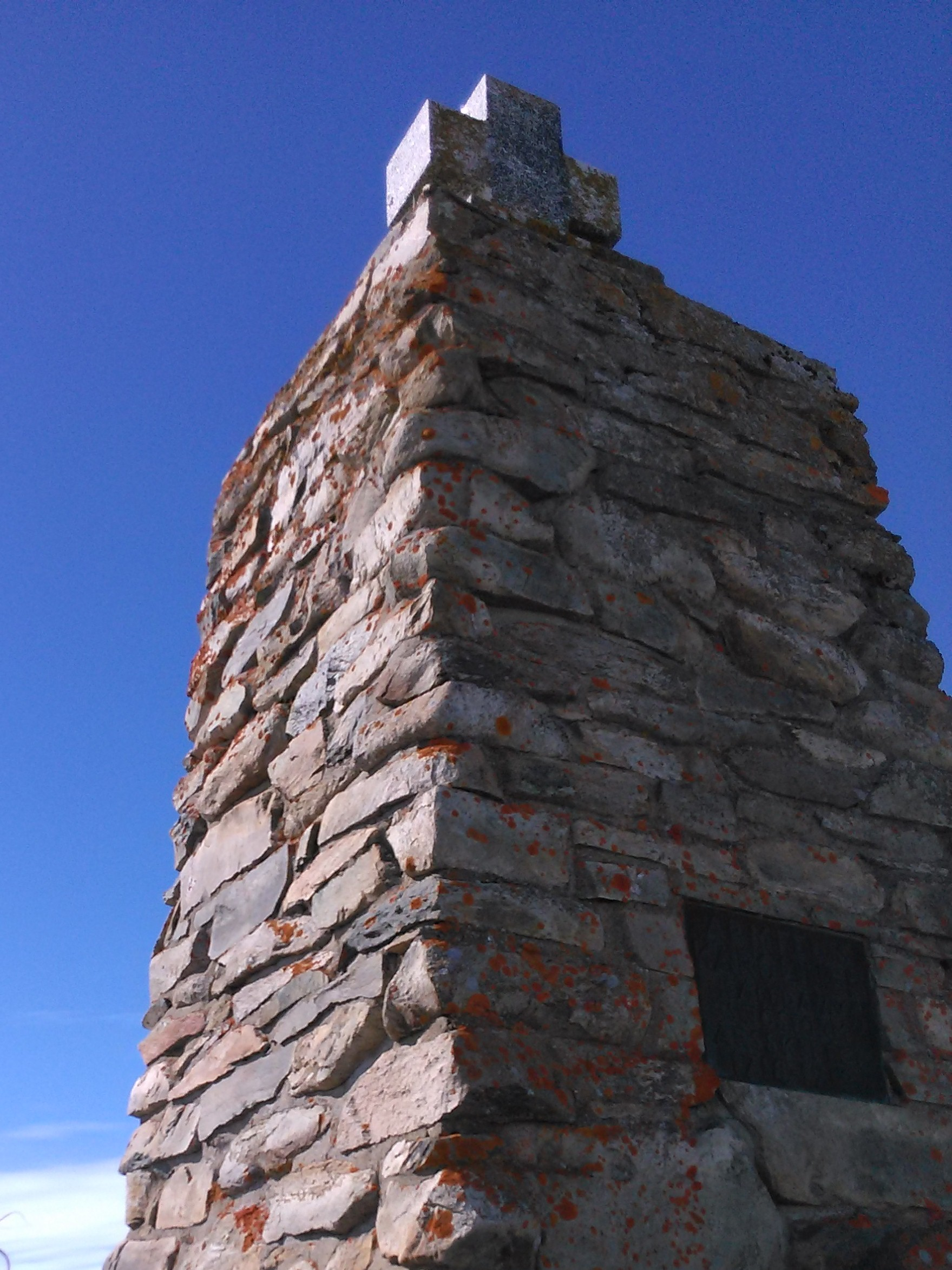 The monument at the Bustvalen hill in Sweden which commemorates the Carolean Death March.